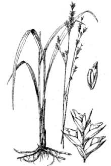 non-copyright line drawing of Diarrhena americana